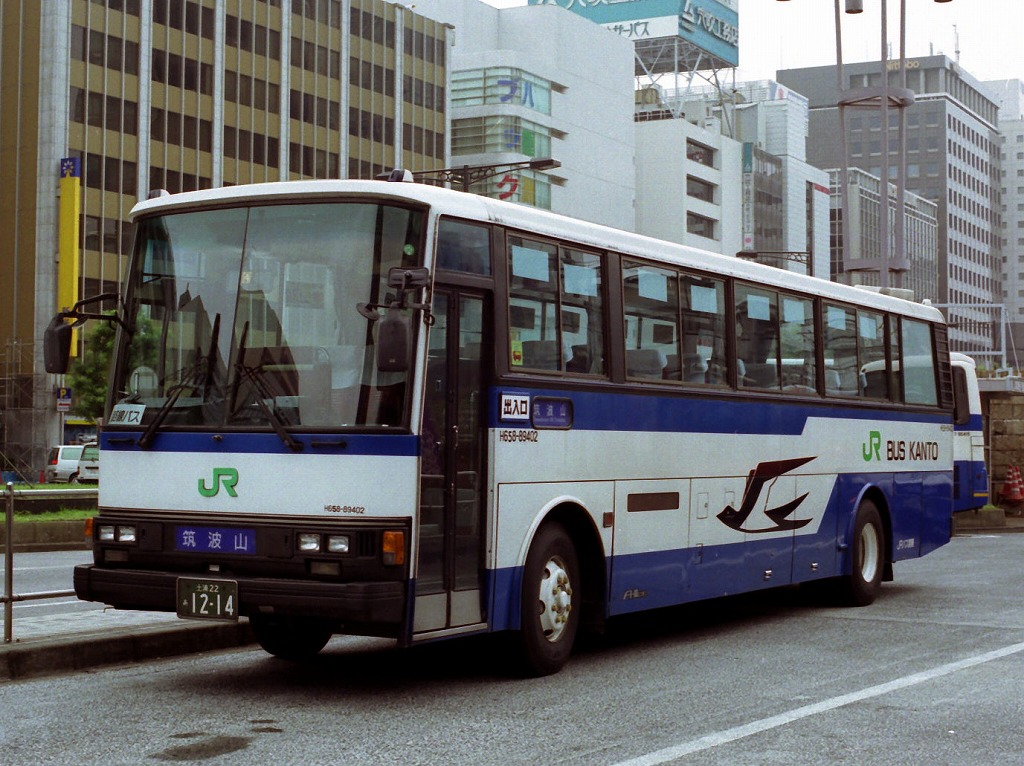 JR bus Kanto Highwaybus "New-Tsukubane"(Tokyo-Mt.Tsukuba)Nissan Diesel Space Arrow(P-RA53TE)